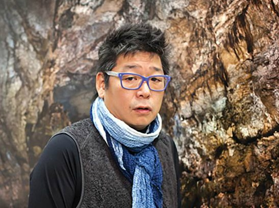 Osamu James Nakagawa